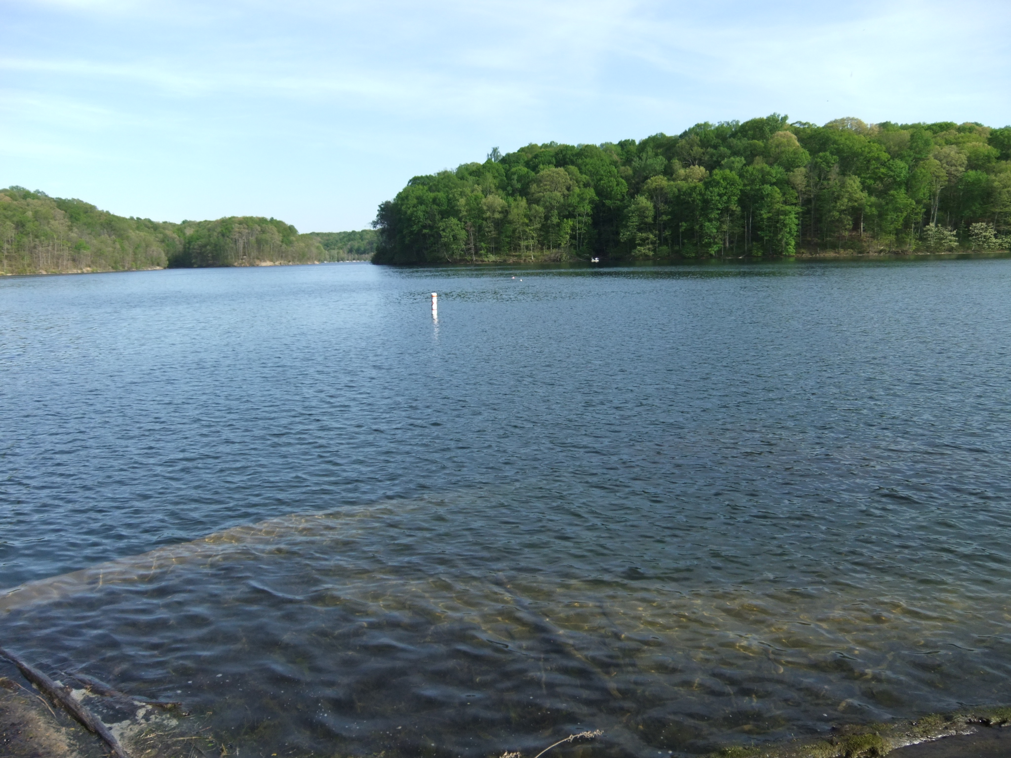 Griffy Lake, Bloomington, Indiana. Photos taken on or near the dam at the western end of the lake.